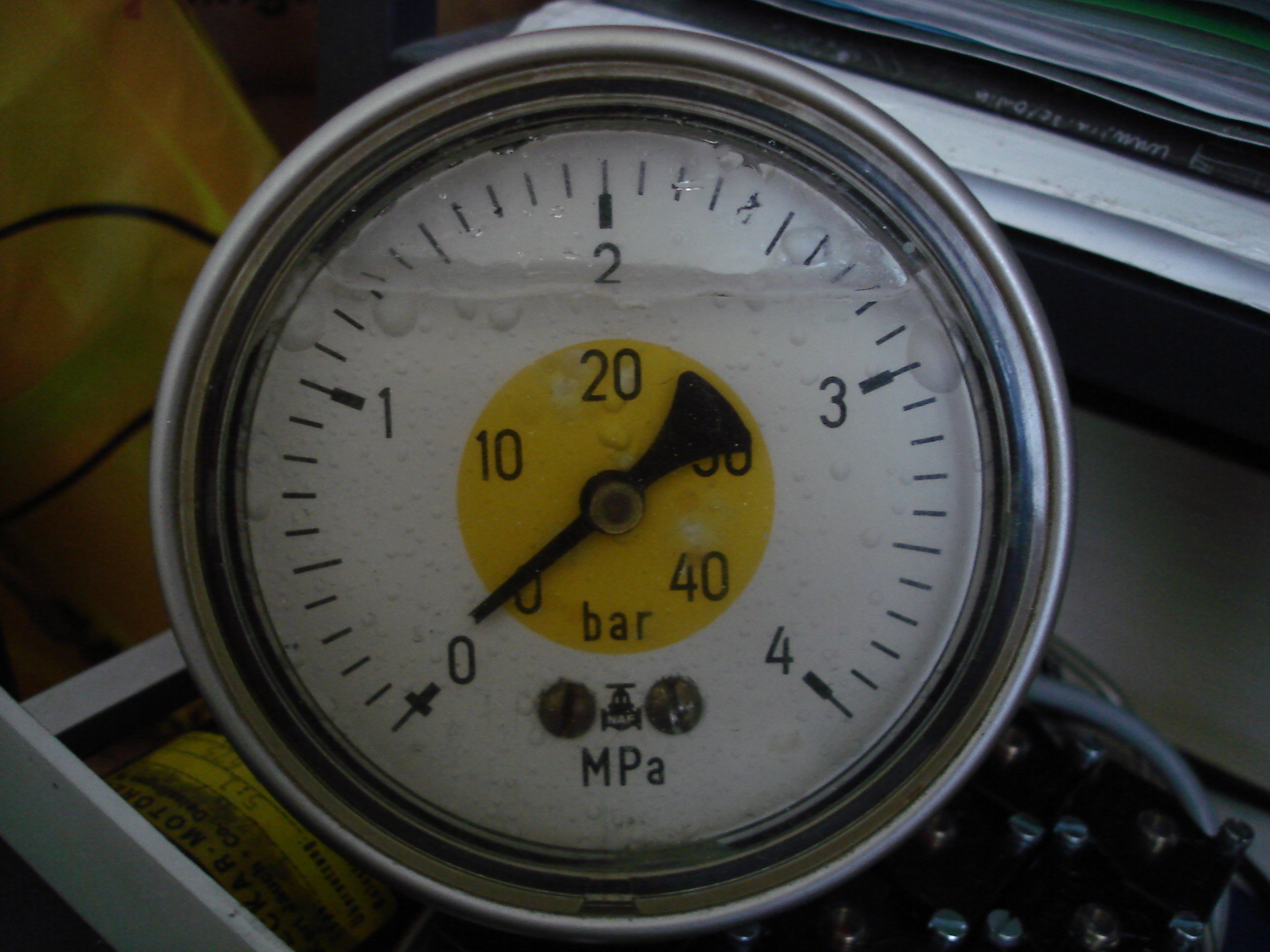 A Glycerine-filled pressure gauge up to 4 MPa used for measuring fluctuating pressures.